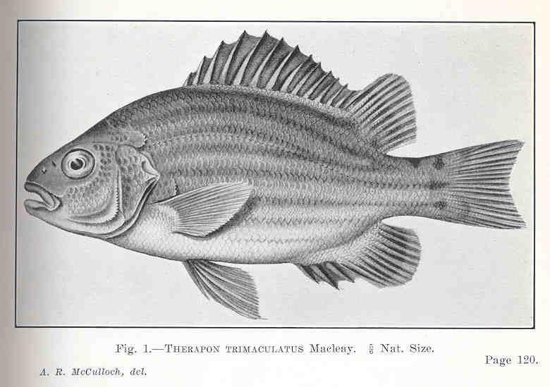 Therapon trimaculatus Macleay Subject: Teraponidae Tag: Fish